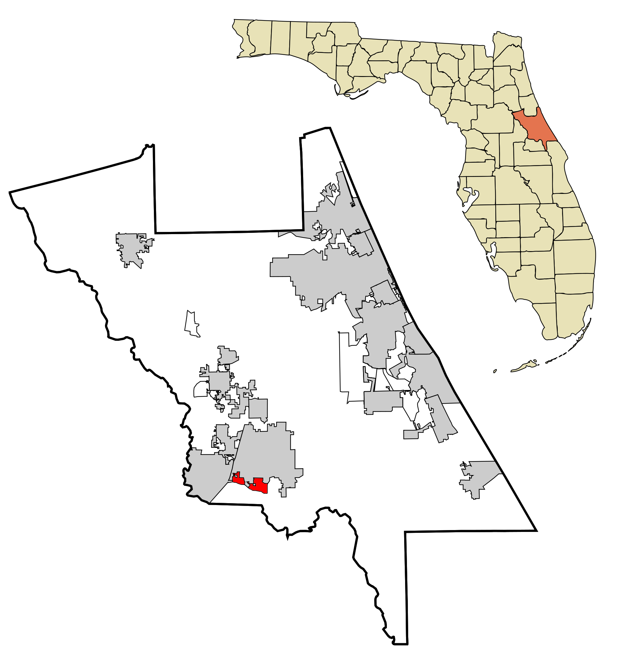 Derived from a file by